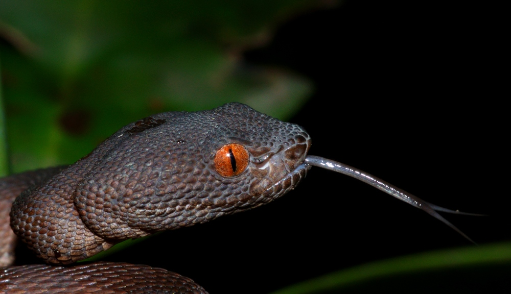 Shore Pit Viper - Trimeresurus (Cryptelytrops) purpureomaculatus, photographed in the wild in Singapore